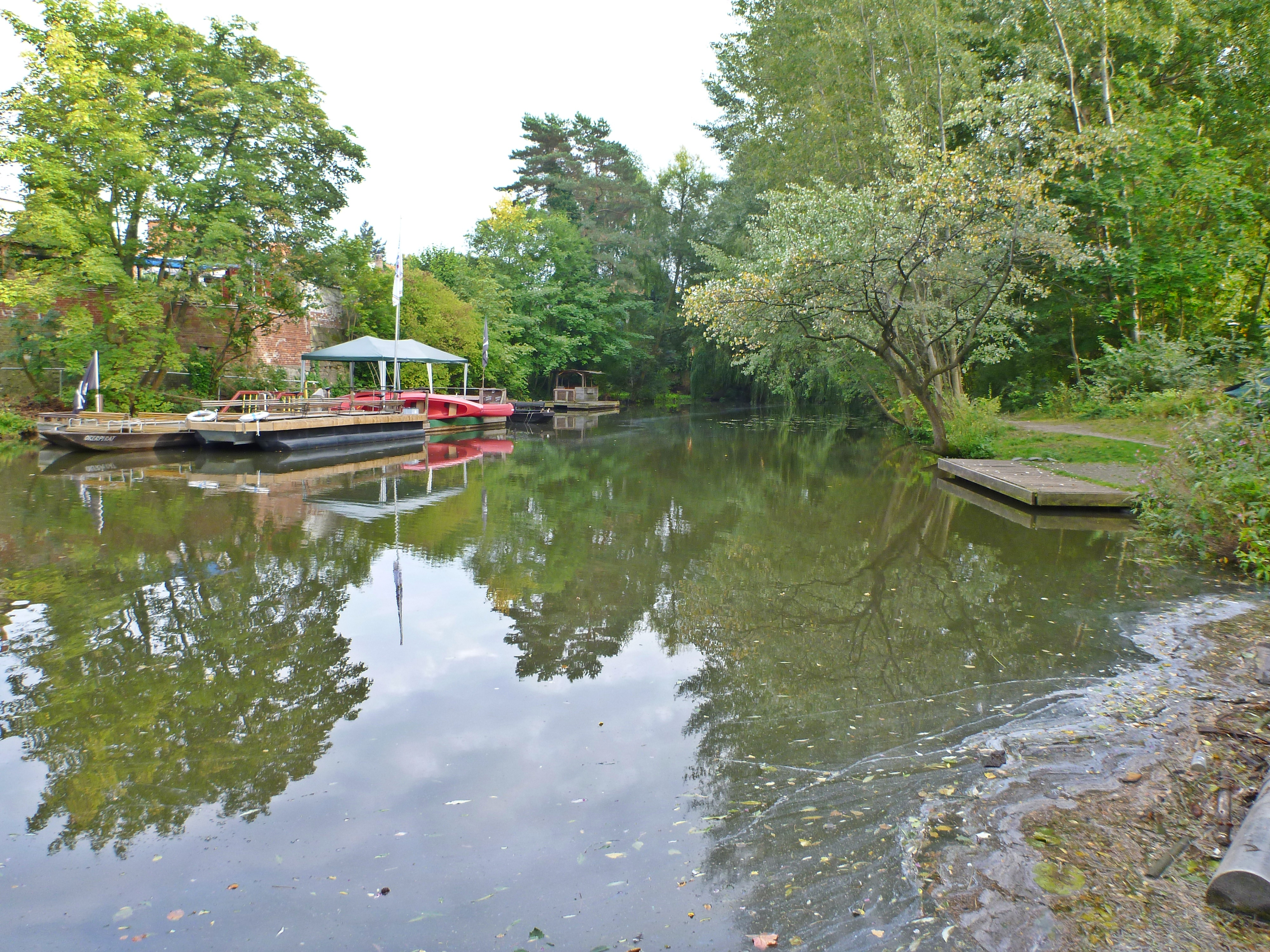 River Oker in Wolfenbüttel